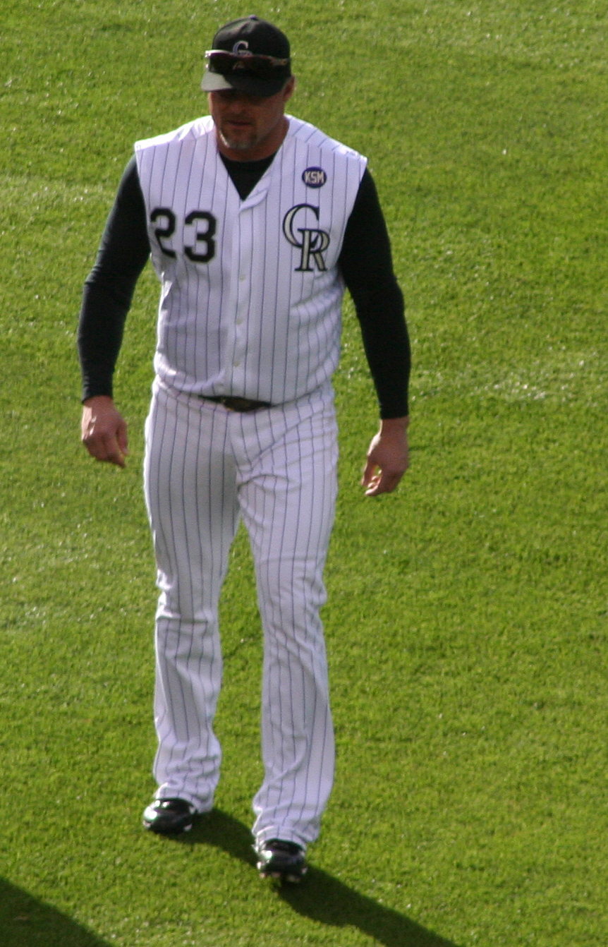 Jason Giambi, a member of the Colorado Rockies baseball team.